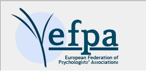 Logo of European Federation of Psychologist's Associations